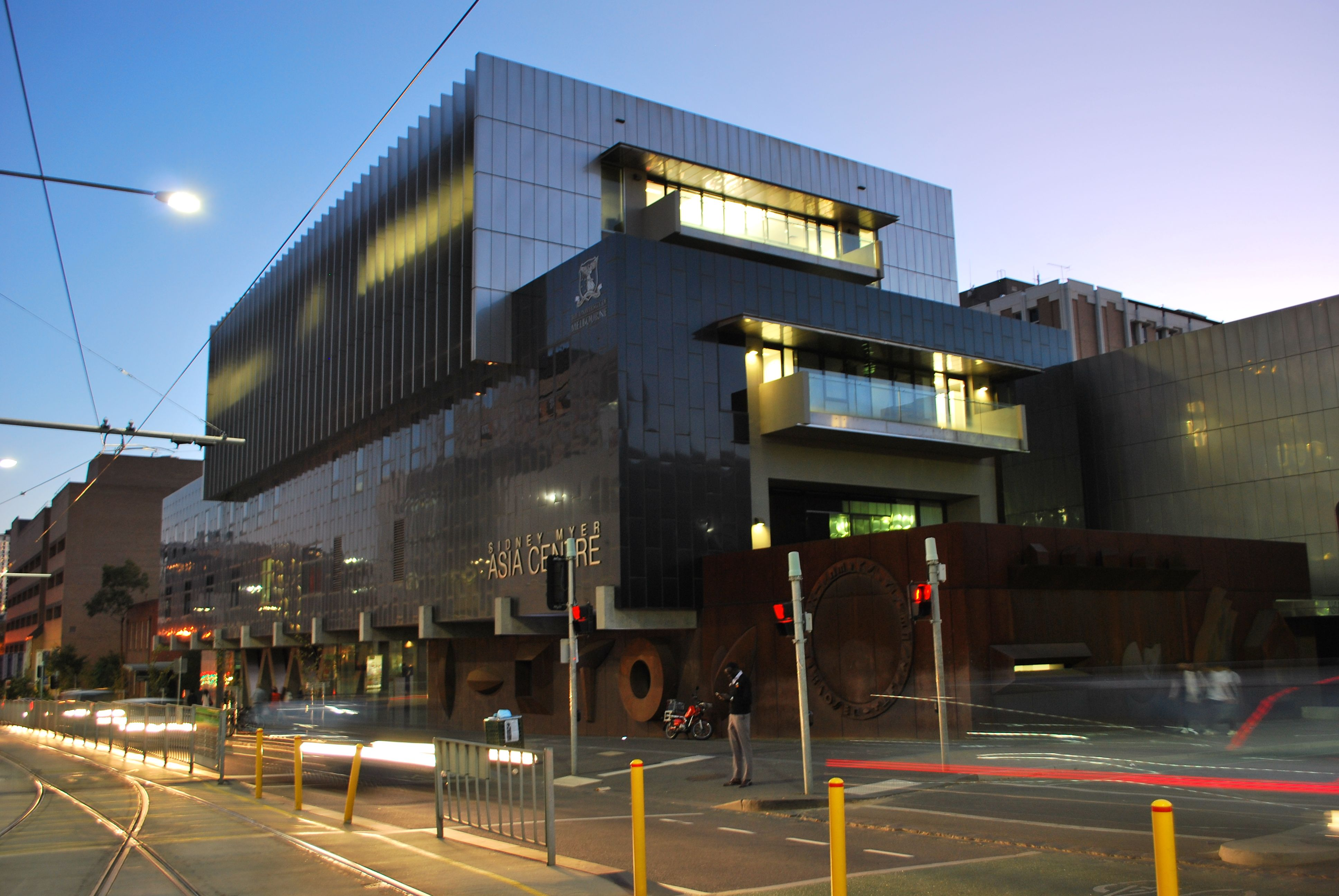 Photo of the Sidney Myer Asia Centre in Melbourne University.